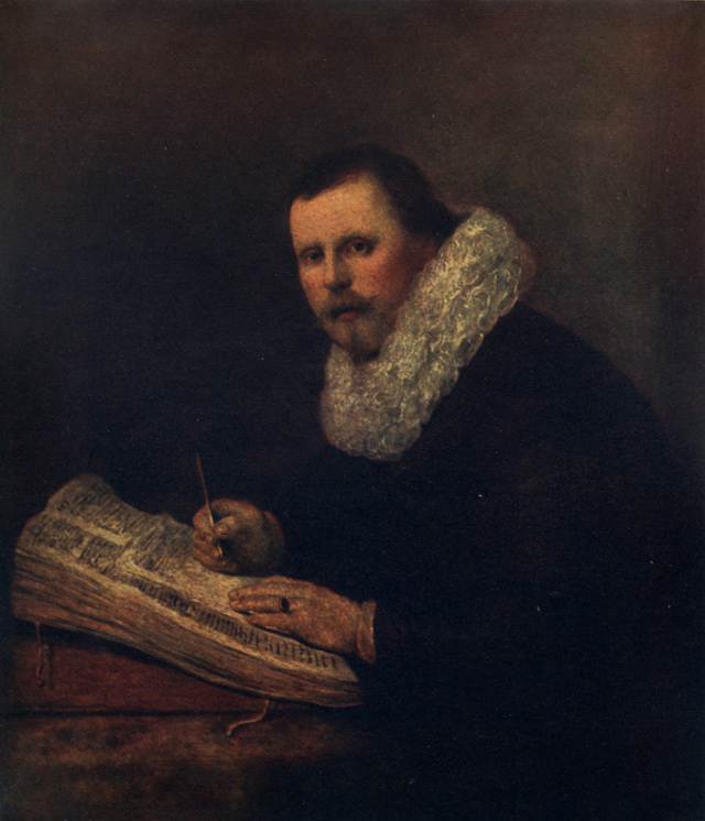 Mortimer Menpes (1855–1938)"Portrait of Savant" (1900 - 1905) shellac on oil on cardboard;42 x 36 cm after Rembrandt (1606?–1669) "Portrait of a Scholar" 1631 - oil on oak; 104 x 92 cm State Hermitage Museum,St. Petersburg, Russia